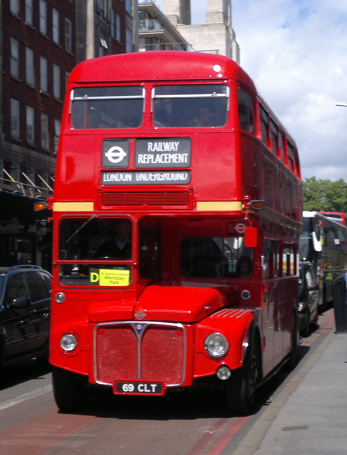 Sullivan Buses Routemaster bus RM1069 (reg. 69 CLT), pictured outside Baker Street tube station in City of Westminster, London, operating a London Underground replacement bus service (D) to Wembley Park tube station.